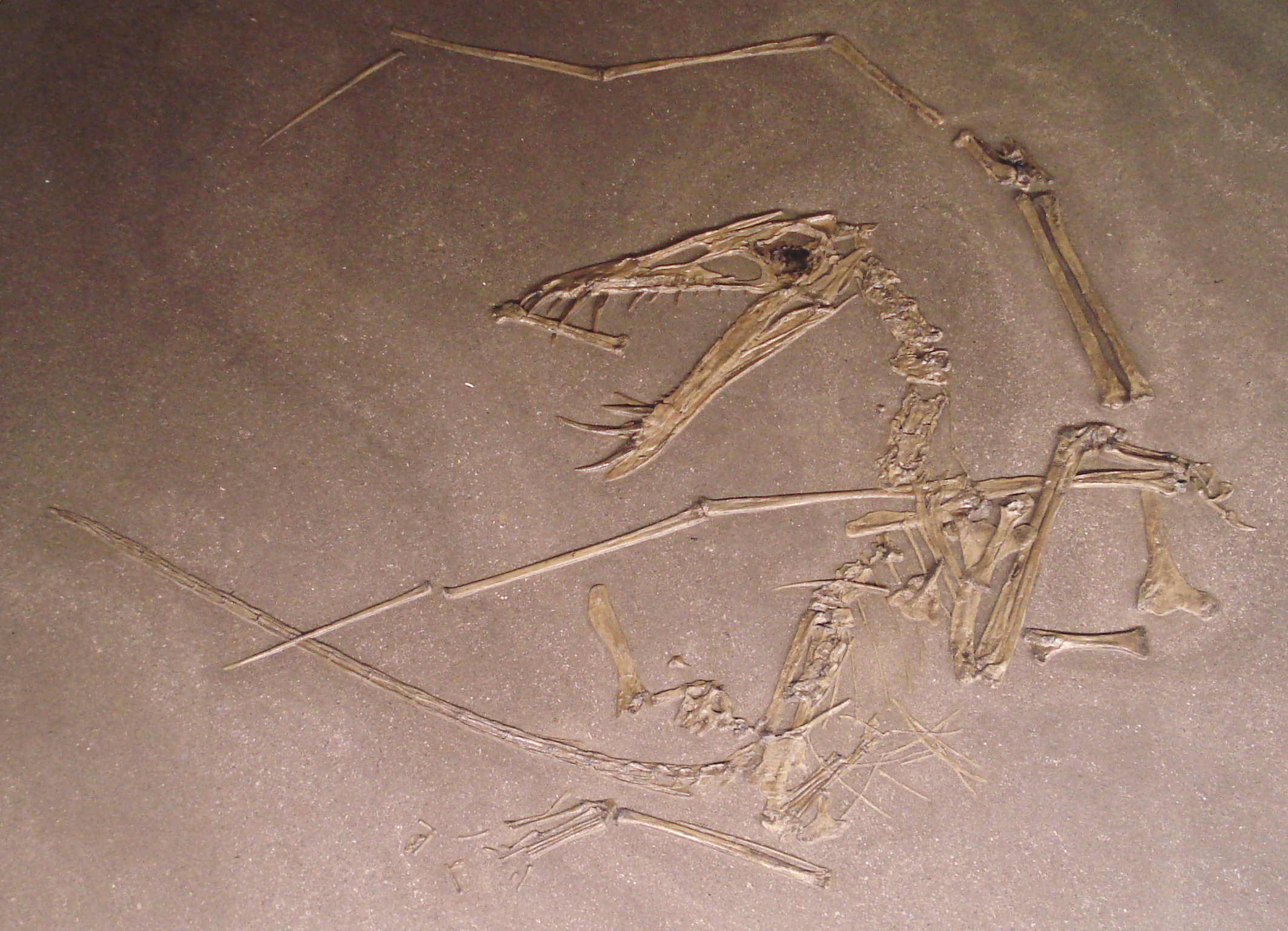 fossil of dorygnathus